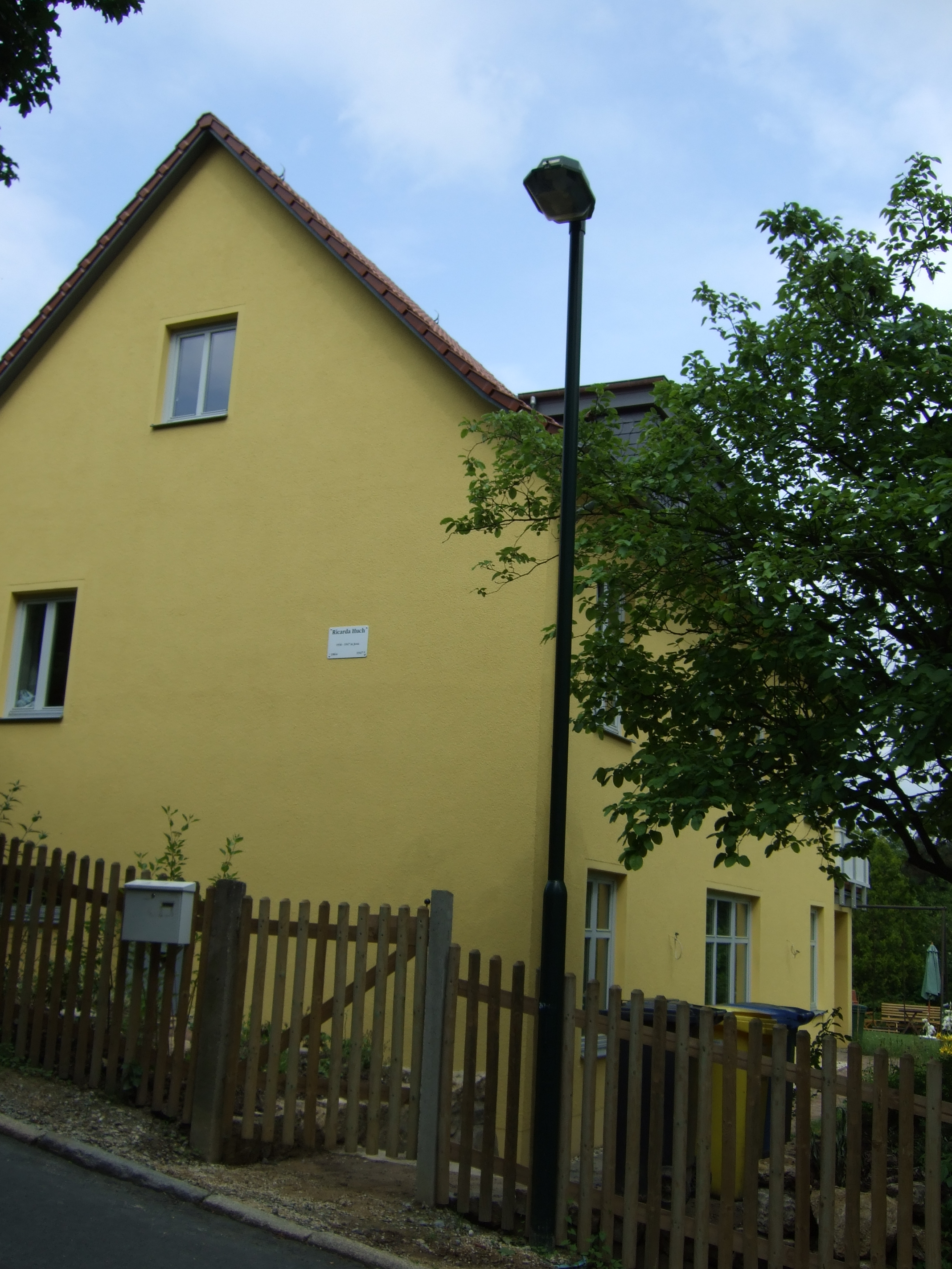 Ricarda Huch house in Jena, Germany.